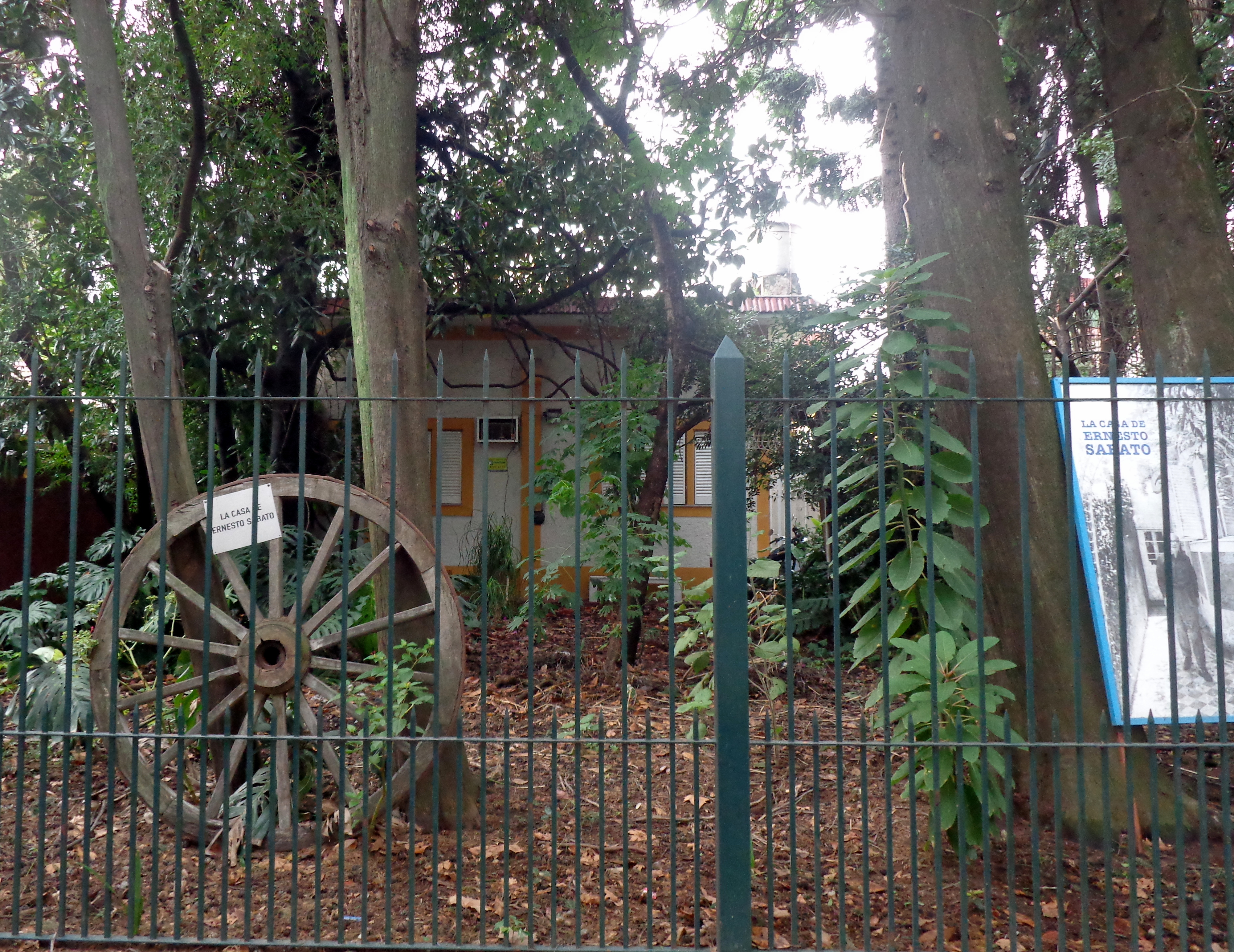 House where the writer Ernesto Sabato lived, current museum. In Saverio Langeri 3135, Santos Lugares, Buenos Aires Province, Argentina.